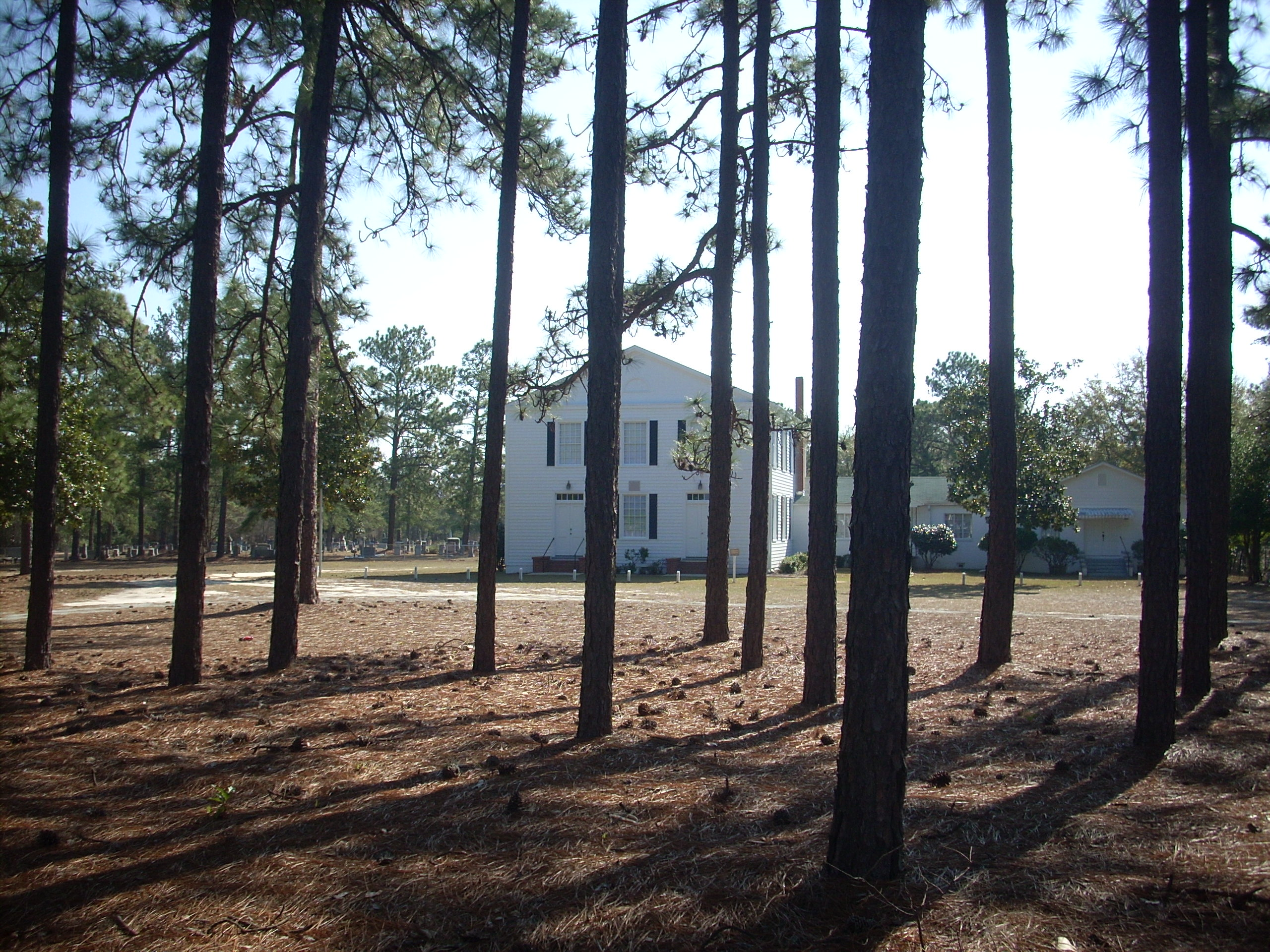 Big Rockfish Presbyterian Church is just outside Hope Mills, NC near U.S. Route 301 on Marracco Road. It was built in 1855 and added to the National Register of Historic Places in 1983.